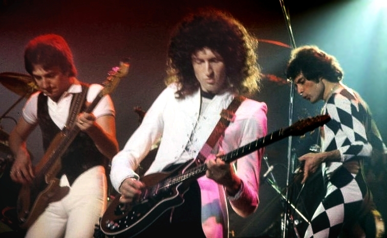 Queen performing in New Haven, CT.